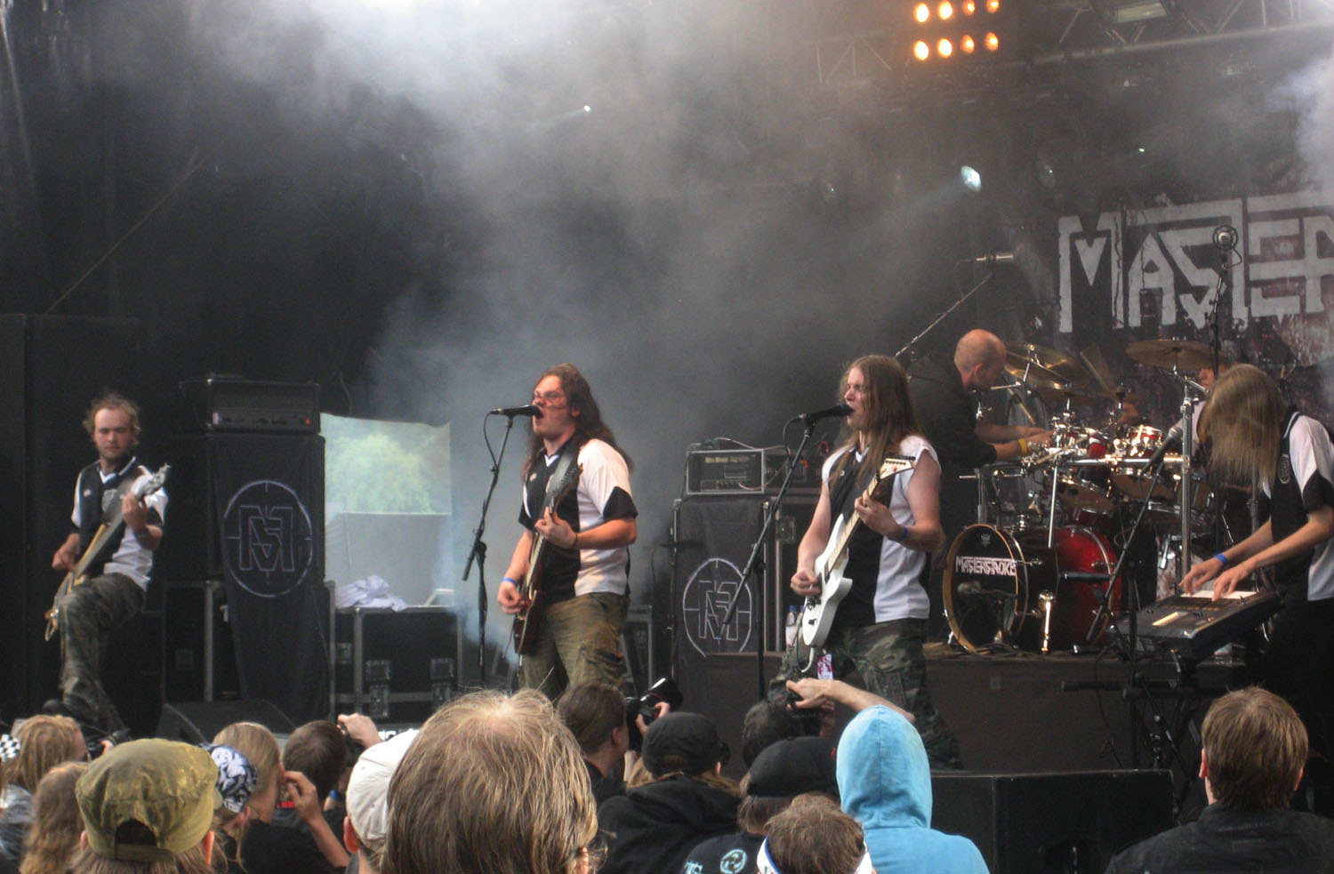 Heavy metal band Masterstroke at Sauna Open Air festival 2008